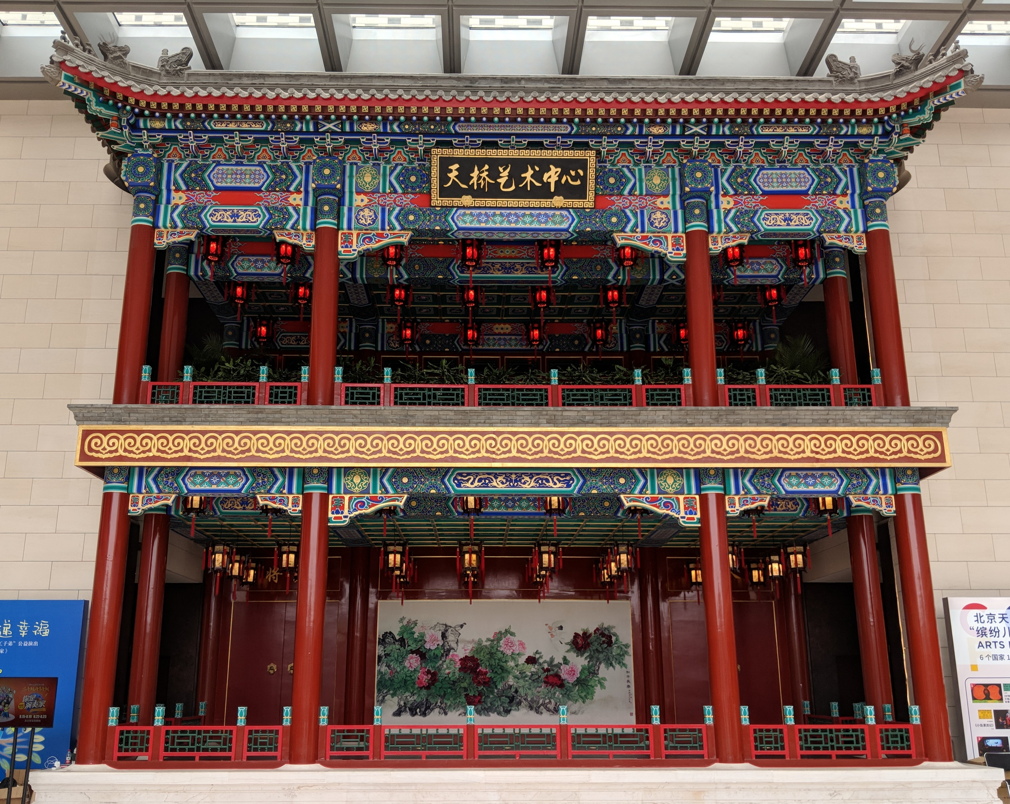 Interior of Beijing Tianqiao Art Center.